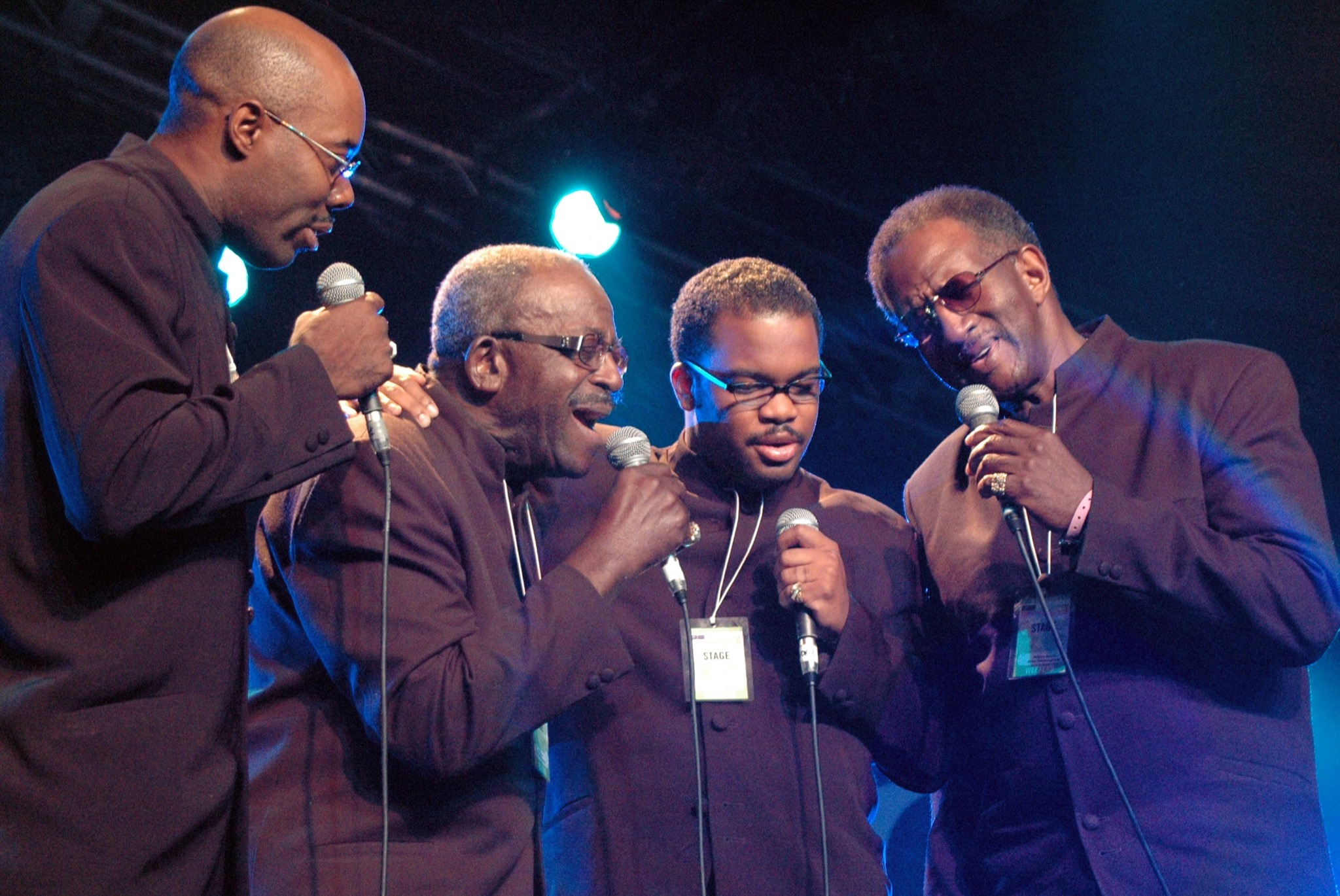 Musicians Cambridge Festivals 2001-2014